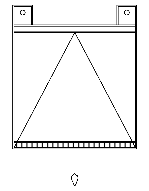 Square Plumb-bob invented by Karaji (Iranian mathematician)